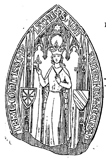 Joan I. of Navarra